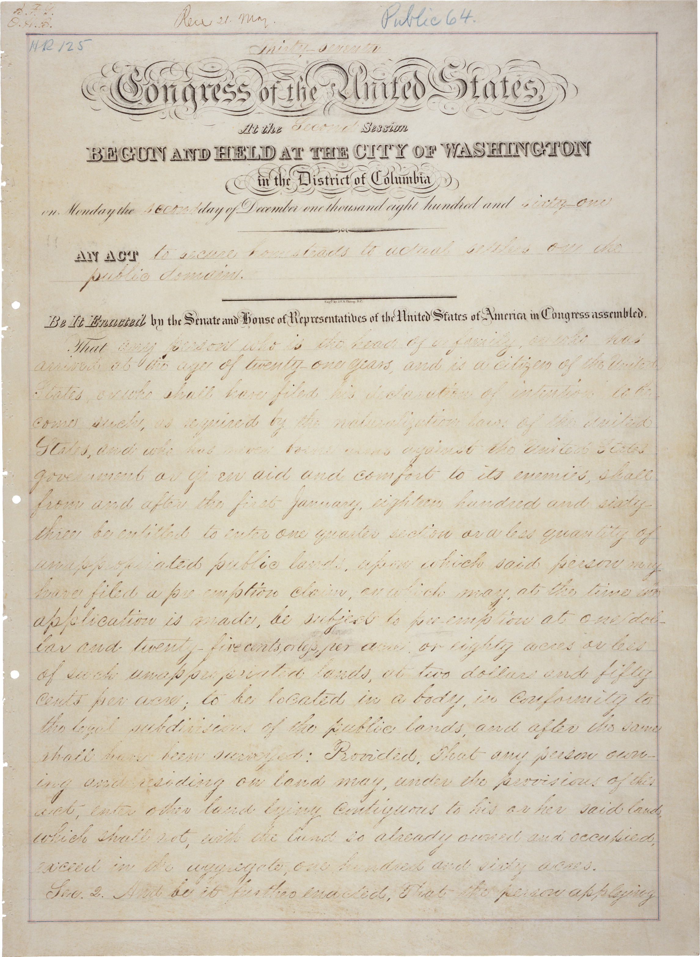 The first page of the Homestead Act.